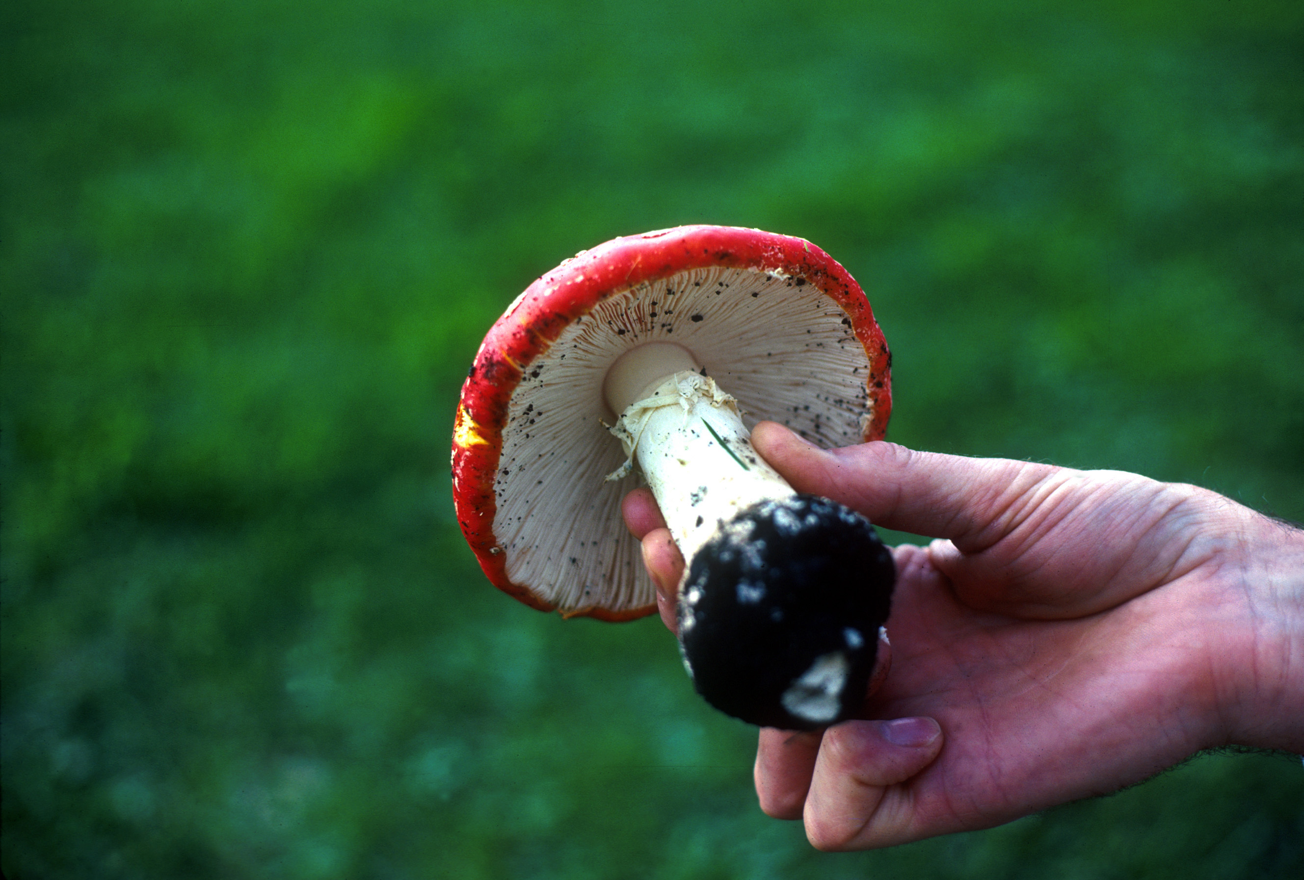 Amanita muscaria. This specimen was found under birch cover at Powertown Forest office.